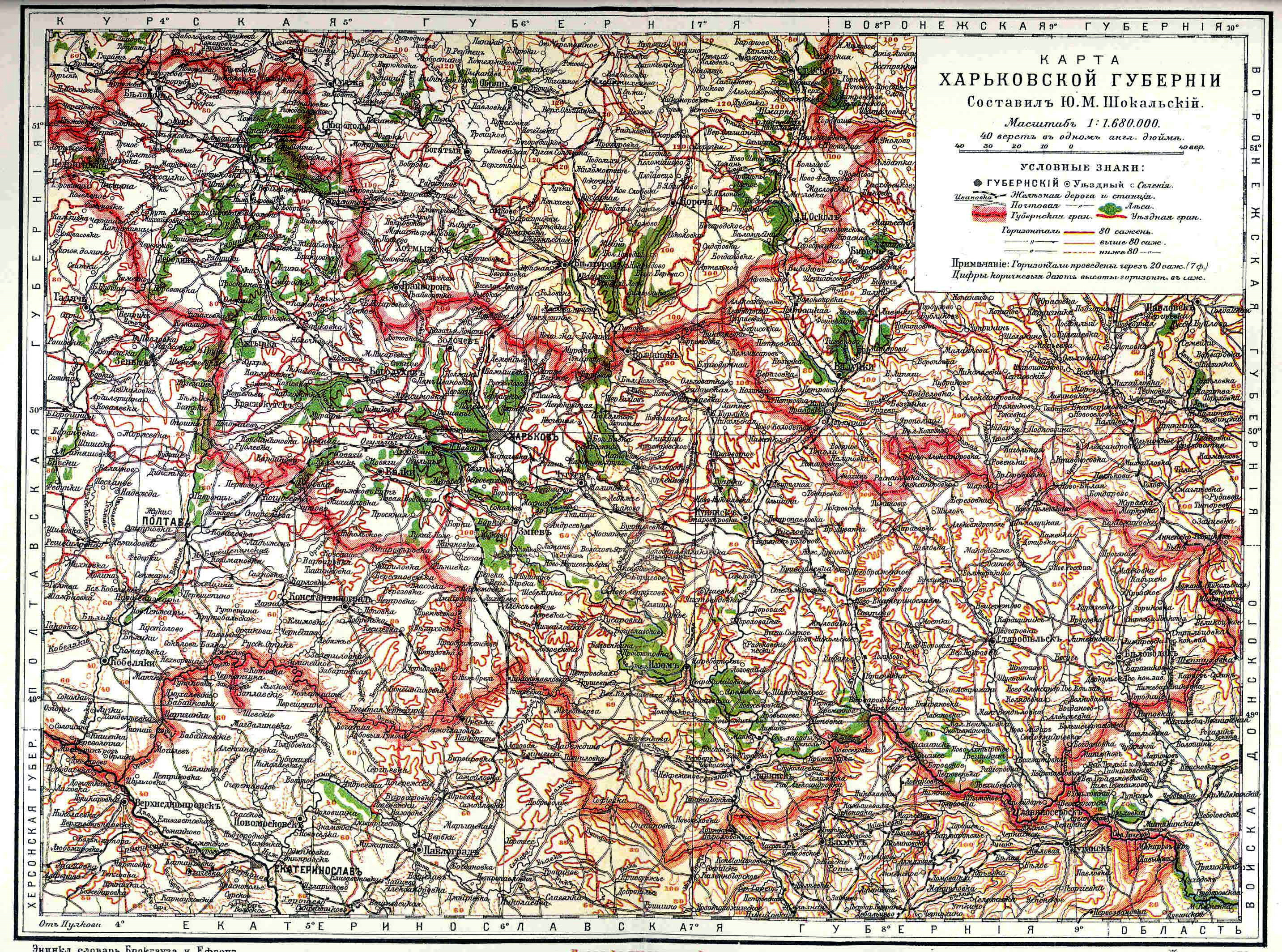 map of Kharkov guberniya of Russian Empire from the Brockhaus and Efron encyclopaedia